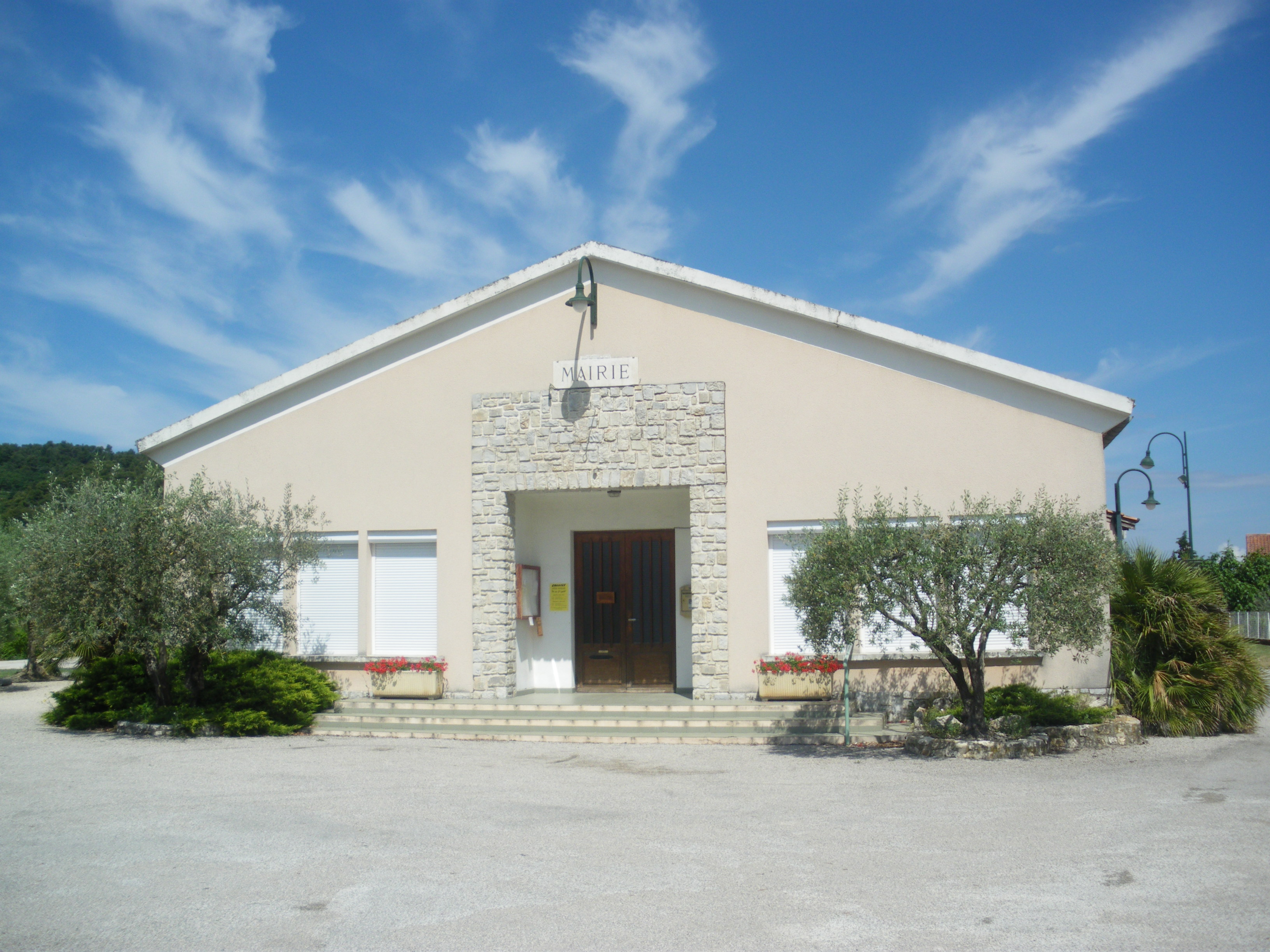 Town hall of Crestet, Vaucluse